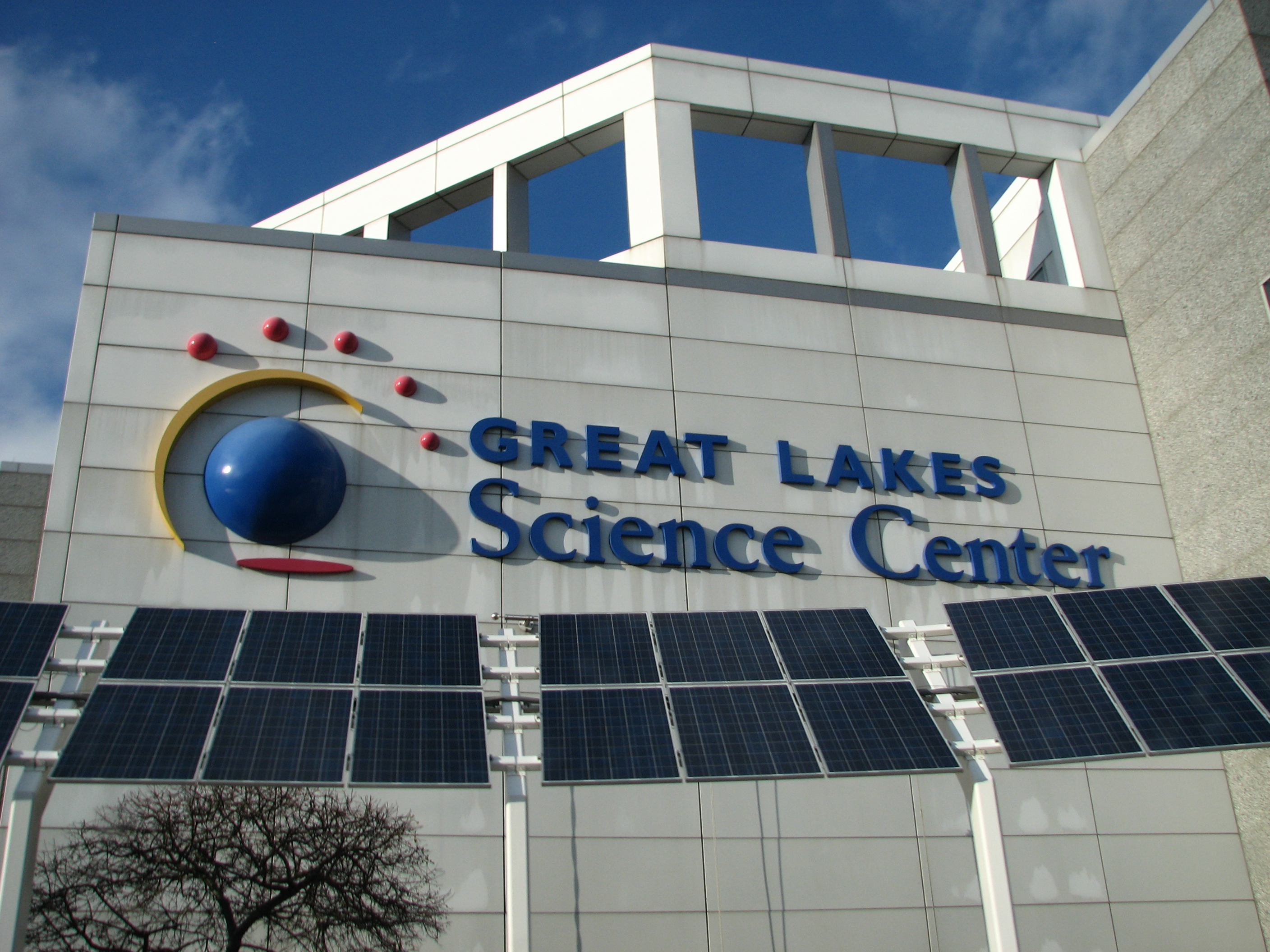 A view of the sign and array of solar panels located near the entrance of the Great Lakes Science Center in Cleveland, Ohio, United States.